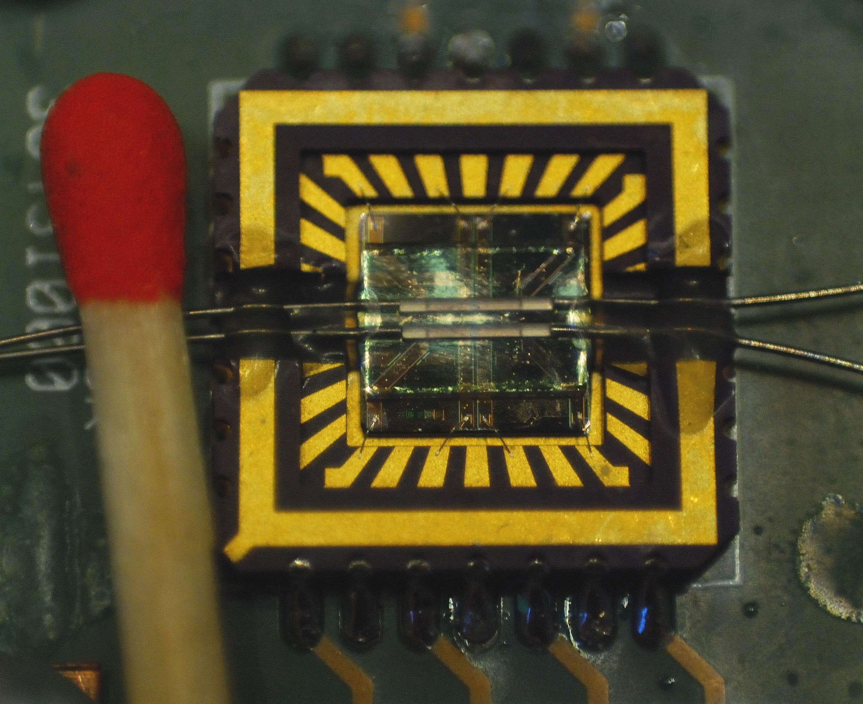 Micro-TCD, used in Gas-Chromatography